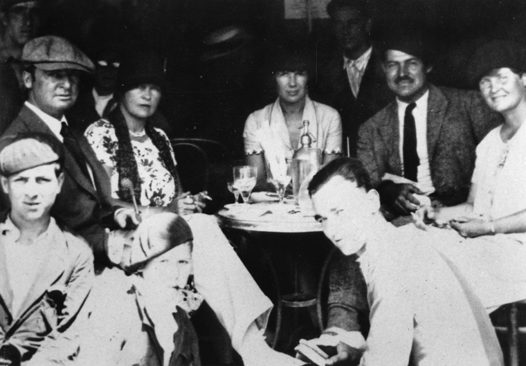 Pamplona, Spain, summer 1926. L-R (at table): Gerald Murphy, Sara Murphy, Pauline Pfeiffer, Ernest Hemingway and Hadley Hemingway.